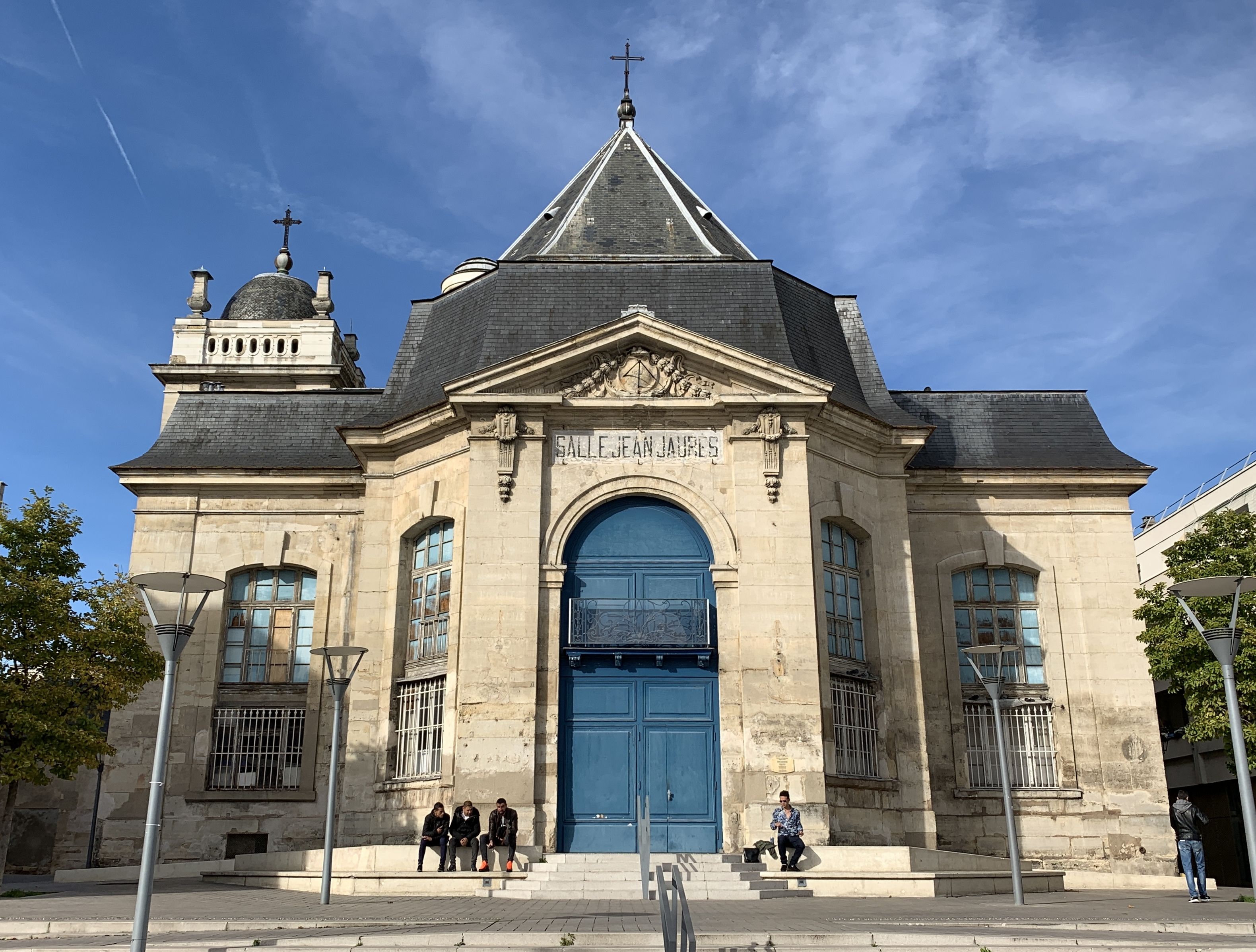 Saints Louis and Nicholas church of Choisy-le-Roi, France.